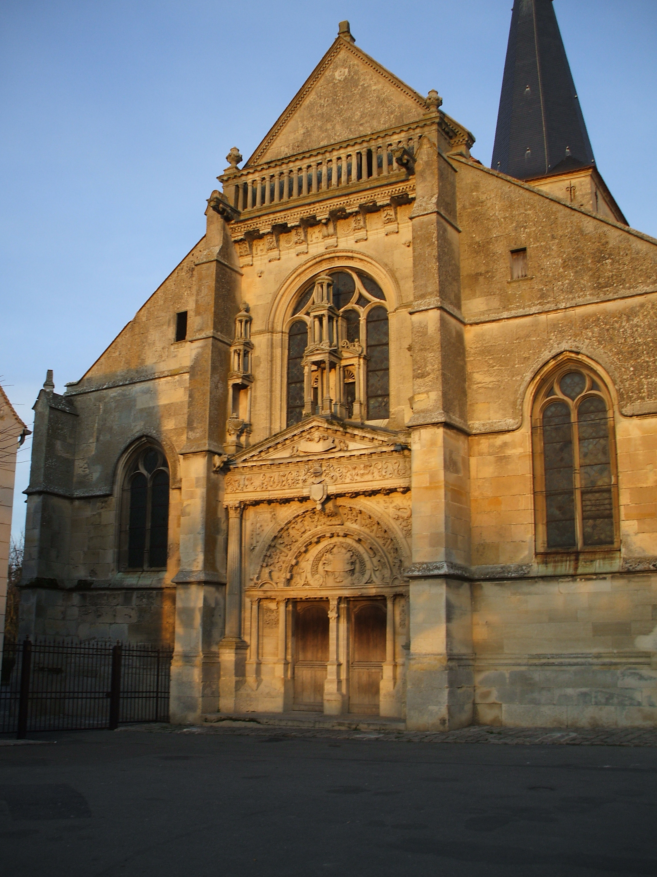 ouest side of belloy en france church's